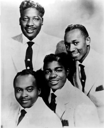 A press photo taken of the members of The Checkers in 1952. John Carnegie is not present in the Photo.